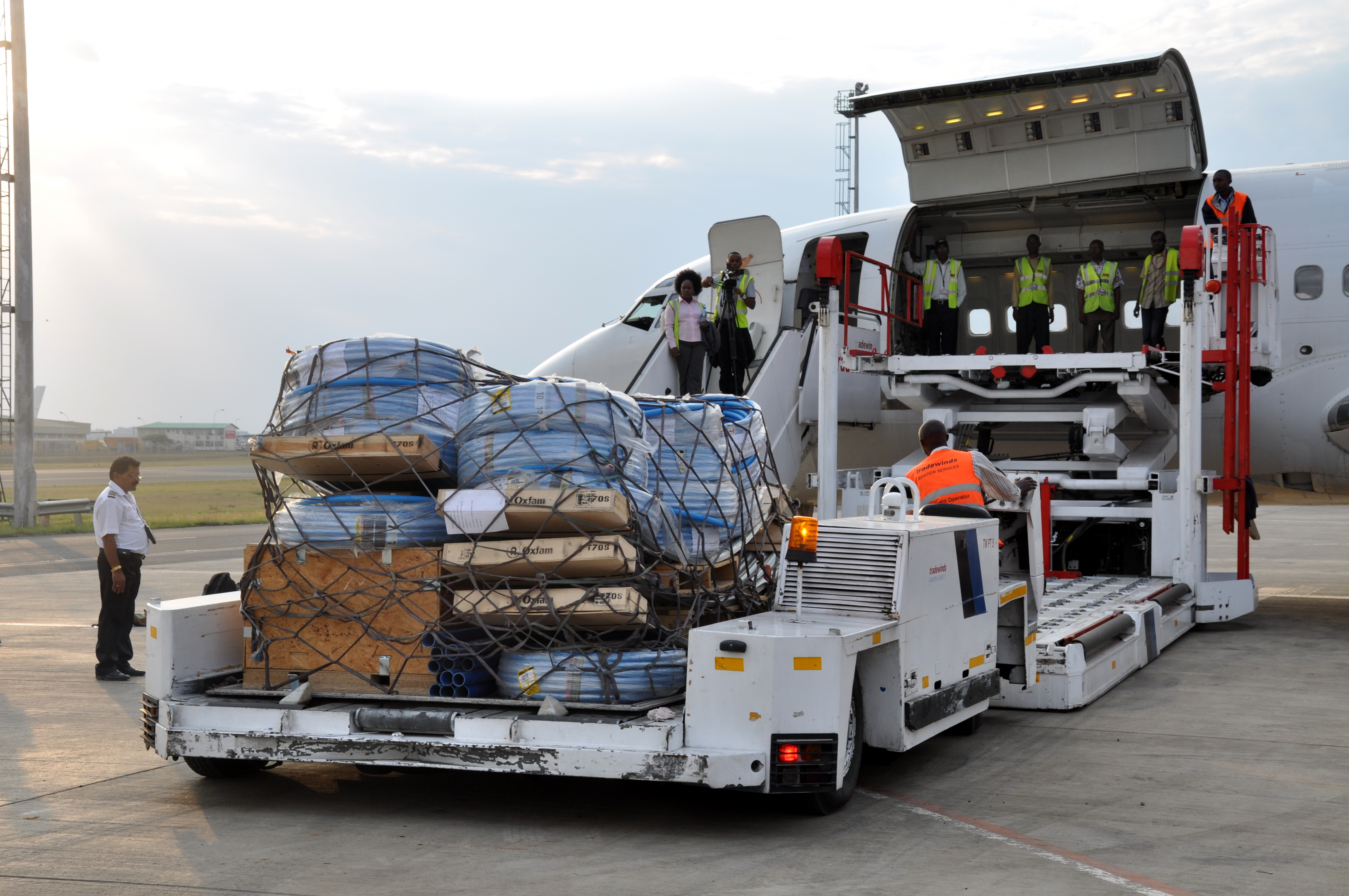 Loading the plane